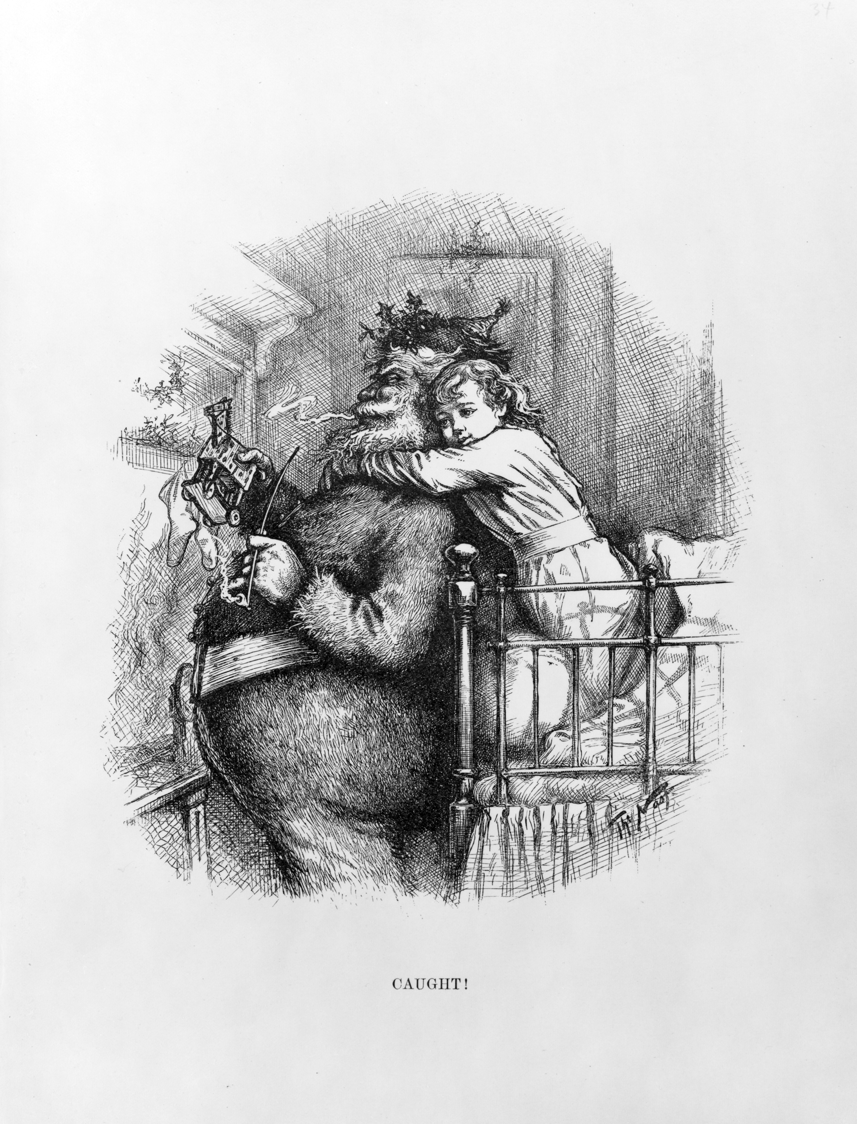 "Caught!" Girl in bed with arms around the neck of Santa Claus, who is holding a toy.